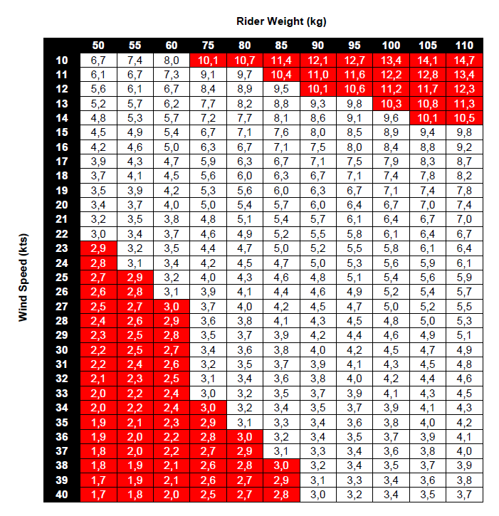 This table maches rider weight and wind speed with the ideal sail size